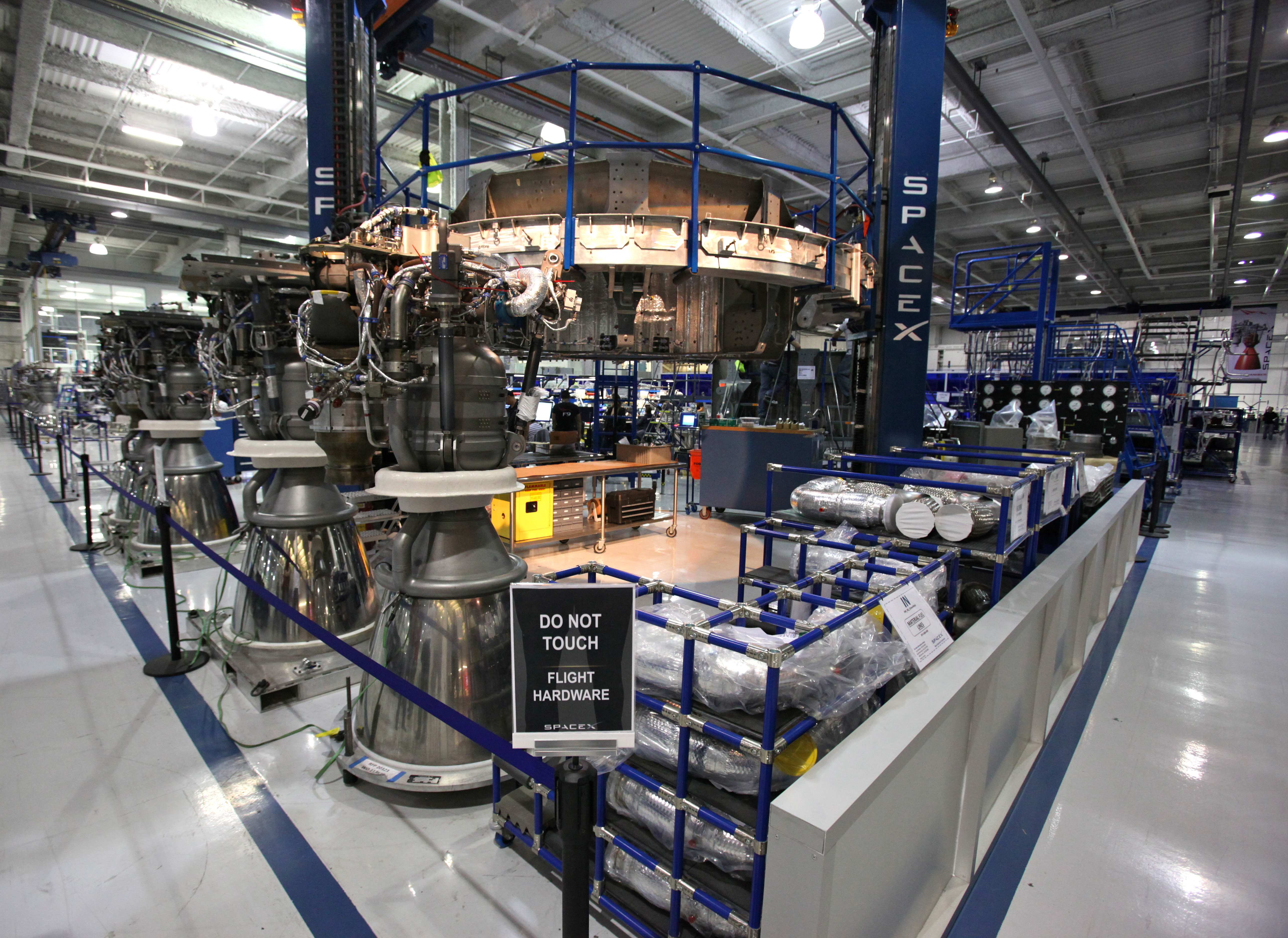 Several Merlin 1D rocket engines are seen alongside the "Octaweb" harness which holds a ring of eight Merlins with a ninth in the middle. Photo taken at the SpaceX facility in Hawthorne, California.